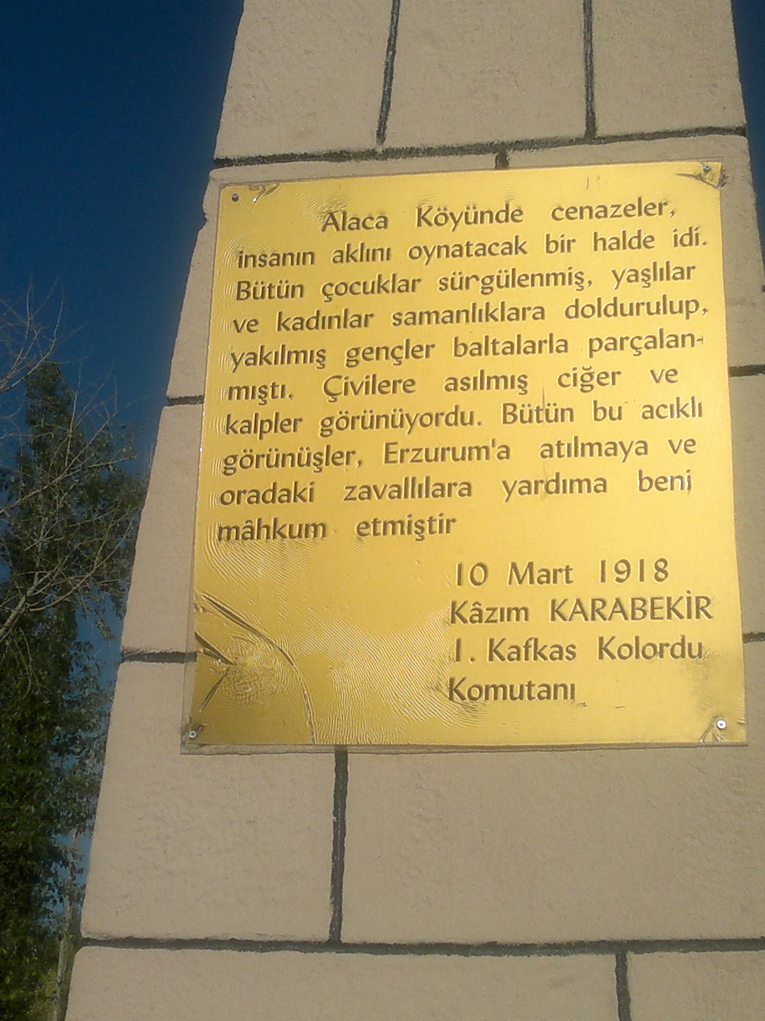 Statue built in Cemetery in Village (Alaca-Erzurum, Turkey) for native Martyrdom Victims.One of the signboard on it. (in 1918, Turkish Genocide had been happened in this village. 278 Turks were killed mercilessly by Armenian brigands.Population of the village was 300.) The signboard includes that